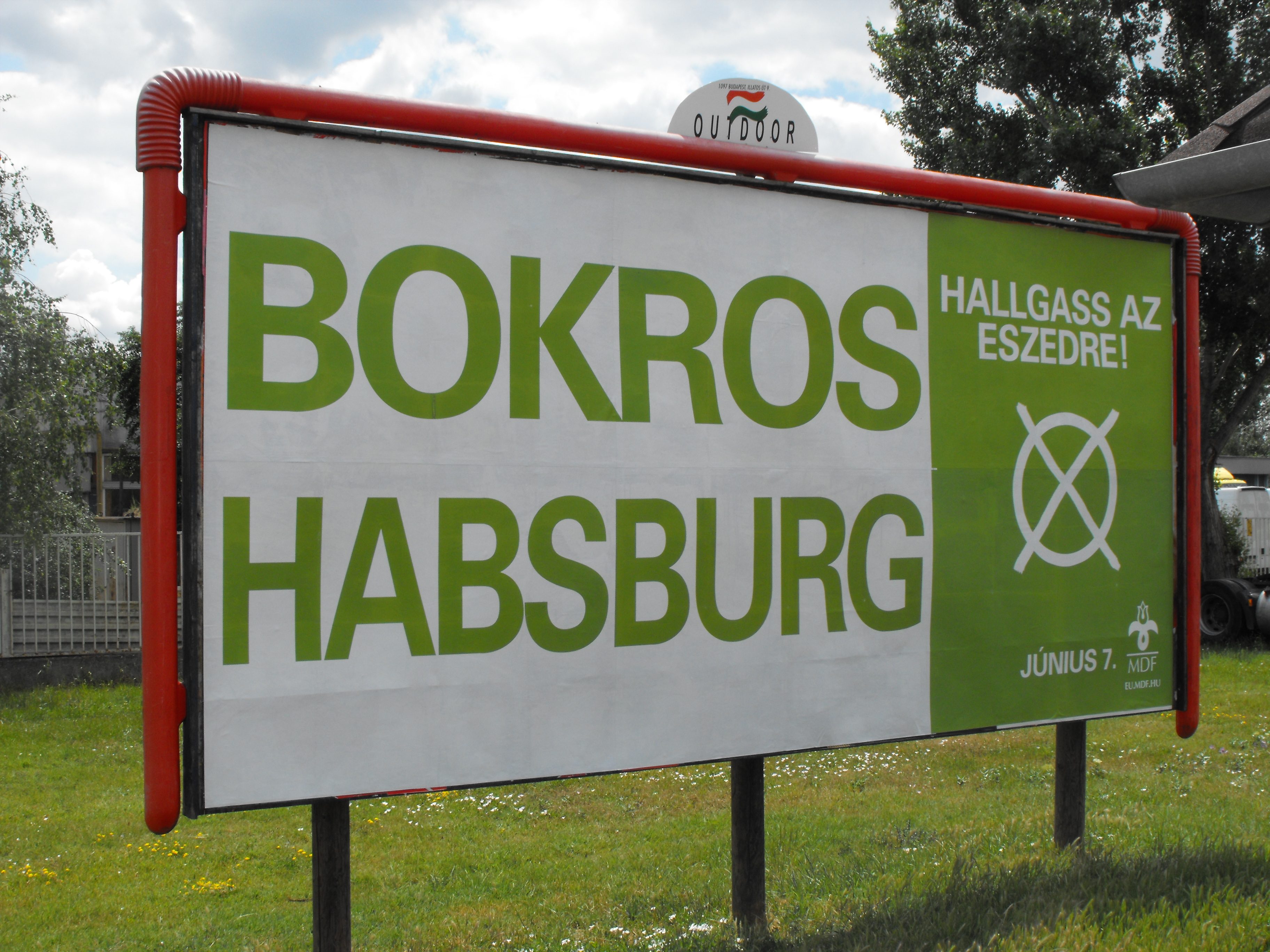 MDF poster for the 2009 European Parliament Election in Makó, Hungary.